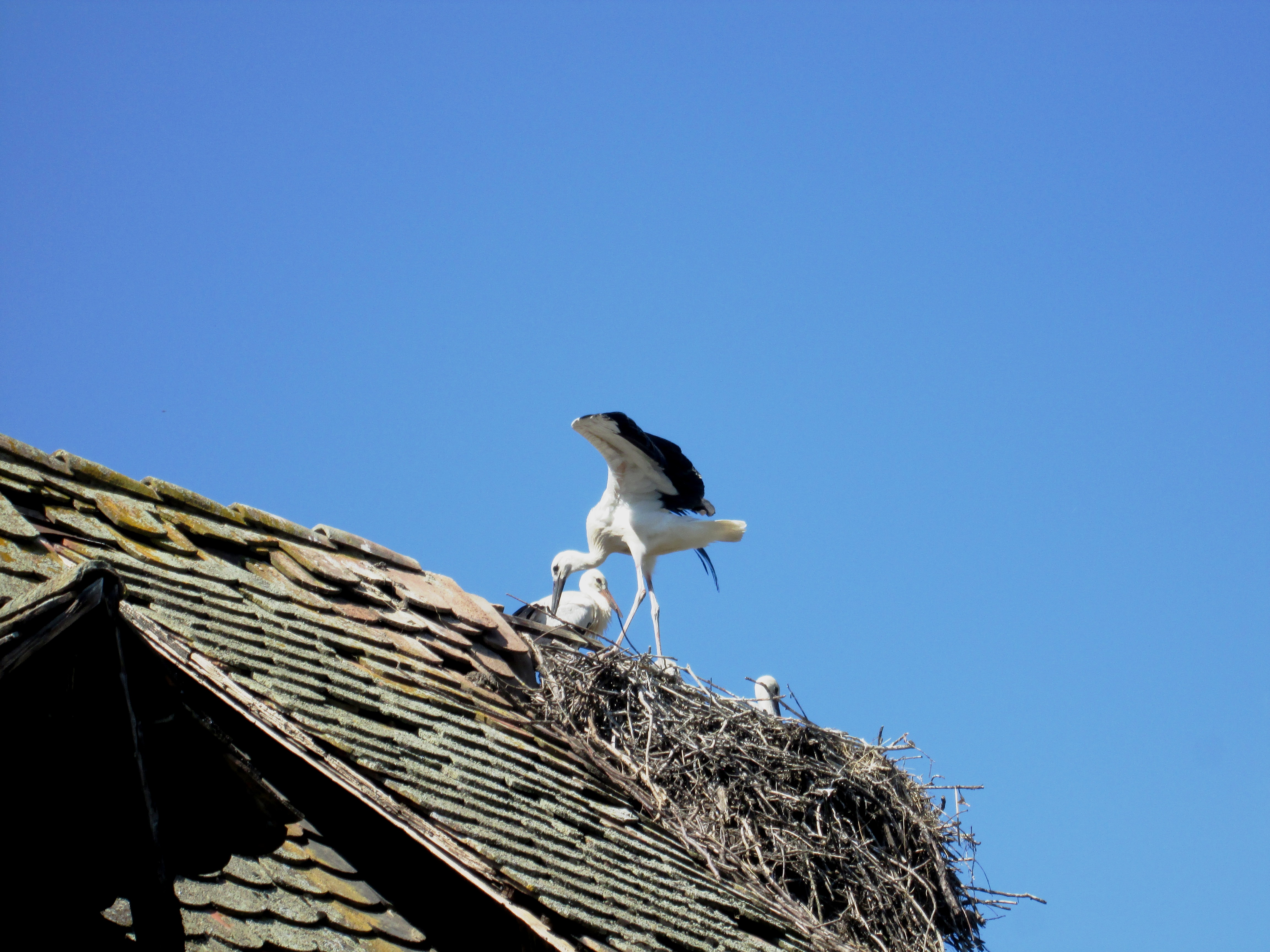 Village of Cigoc in Croatia, European Stork Village